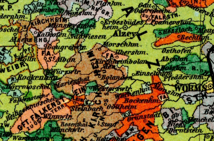 map of the county of Falkenstein